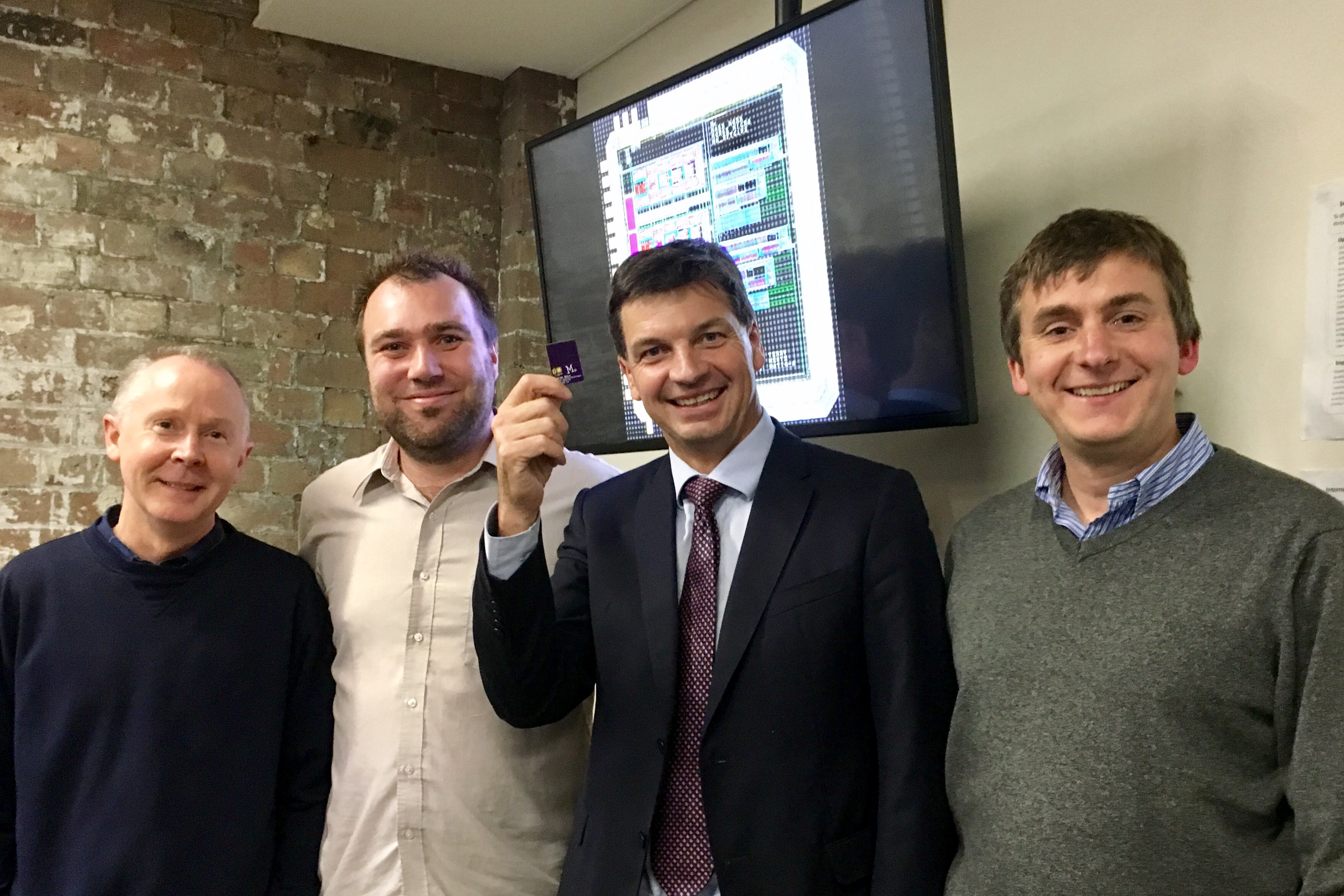 Angus Taylor, the Member for Hume in the Australian Federal Parliament, holds a Wi-Fi HaLow chip prototype developed by the Australian company Morse Micro. Beside him are, from the left, David Goodall, Michael de Nil then Andrew Terry. Photographed in Picton 29 June, 2017.